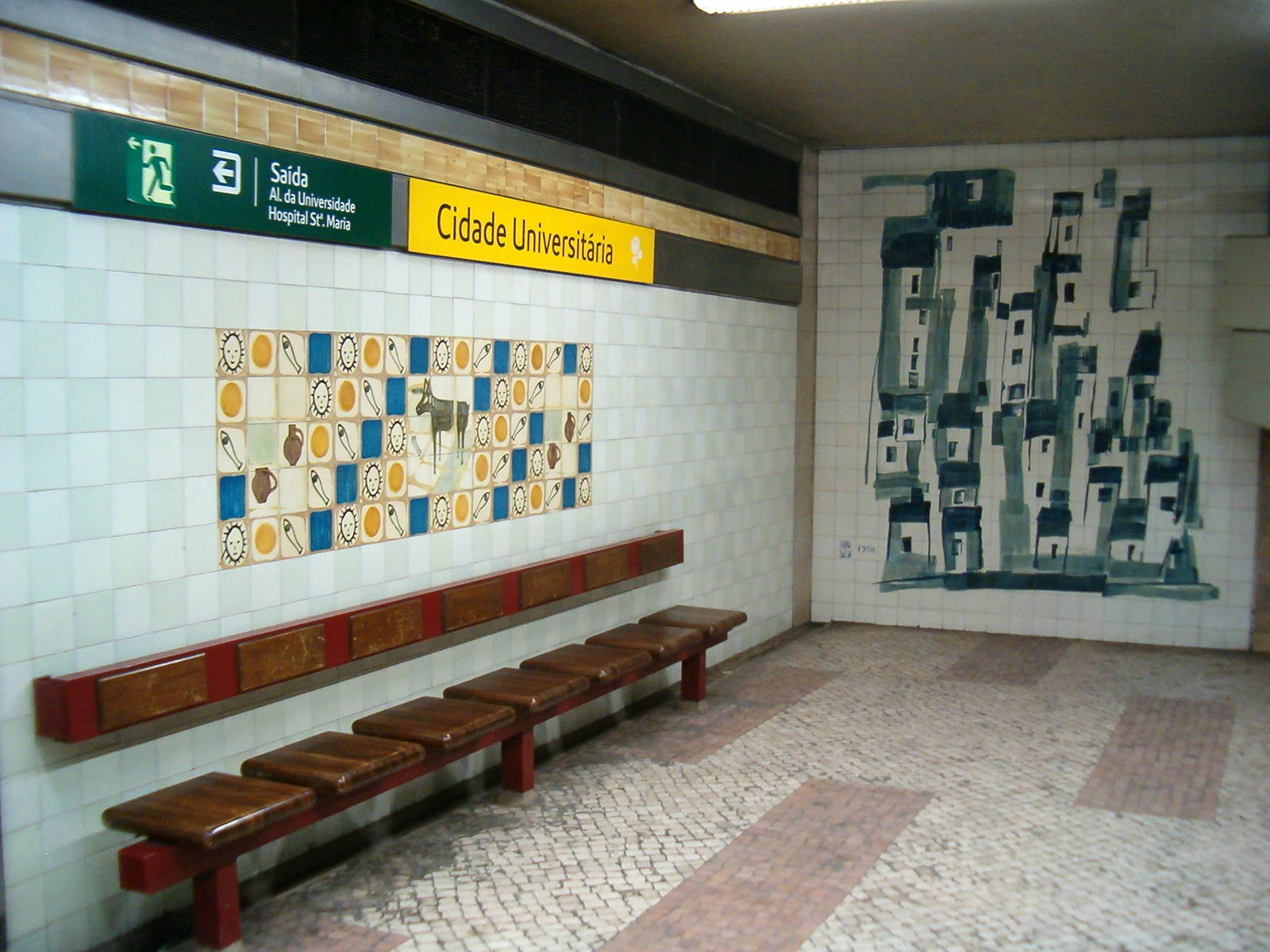 Metro station Cidade Universitária (Lisboa); azulejos by Maria Helena Vieira da Silva